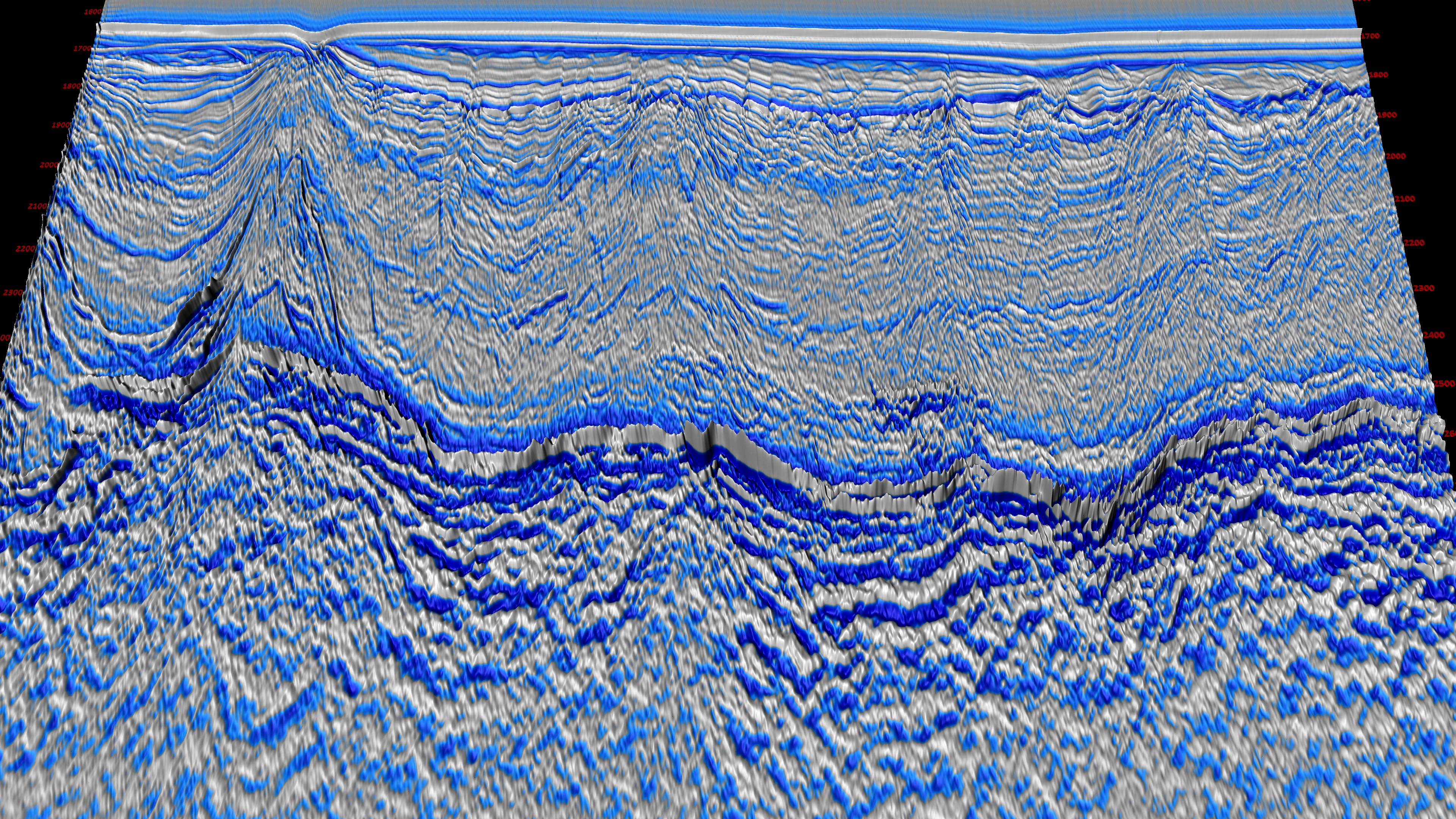 Seismic expression of basaltic sills in the Rockall Trough. Image is from south of the George Bligh Bank. Seismic data courtesy of the UK Oil and Gas Authority.